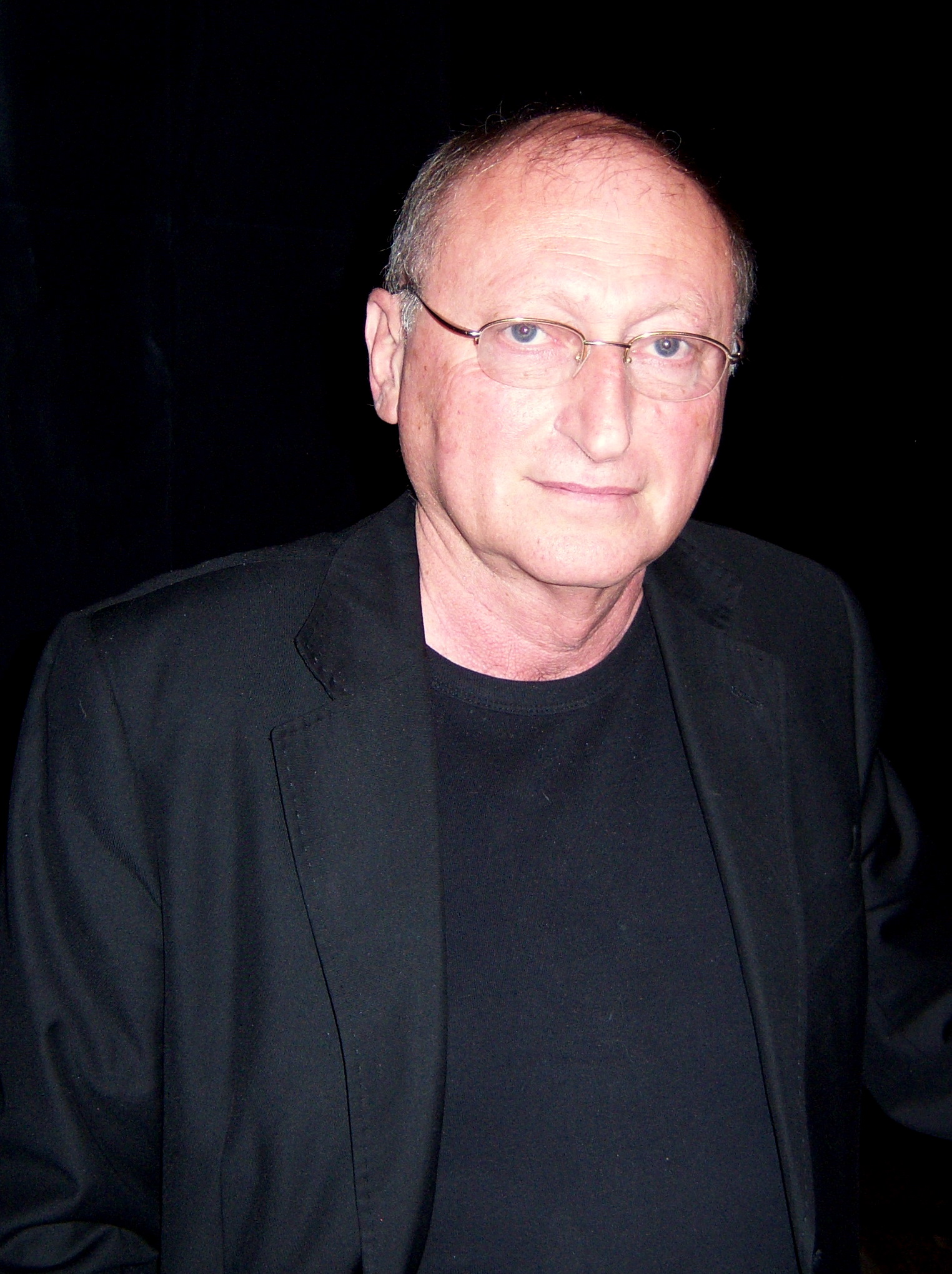 Emanuel Halperin